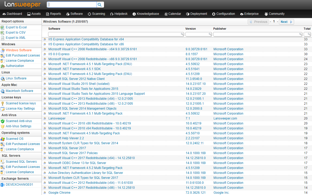 Software overview in Lansweeper 7.1.50